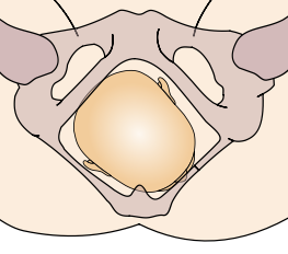 The left occipito-anterior variant of cephalic presentation